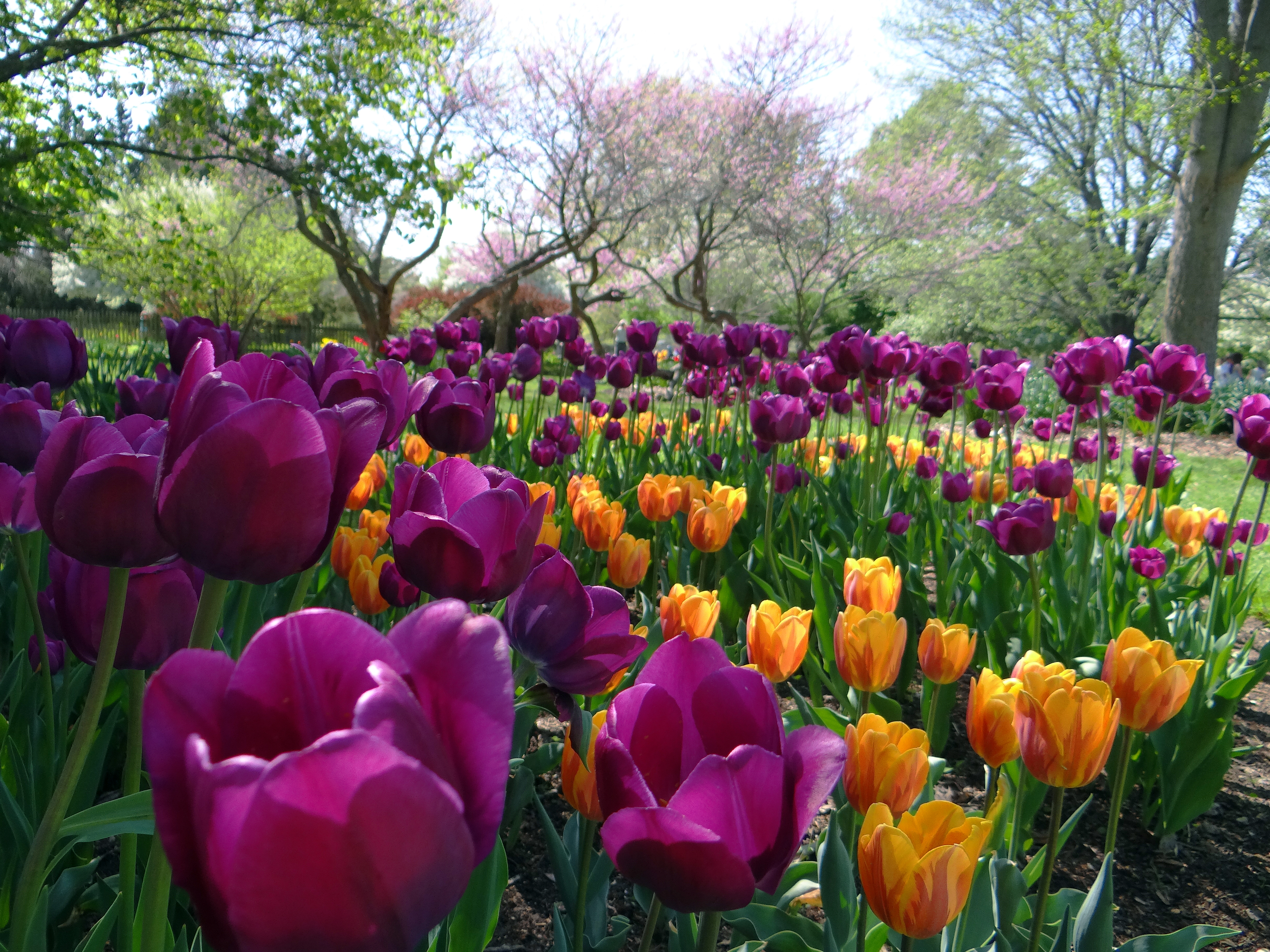 Flower gardens at Foster Park in Fort Wayne, Indiana (10 May 2014)